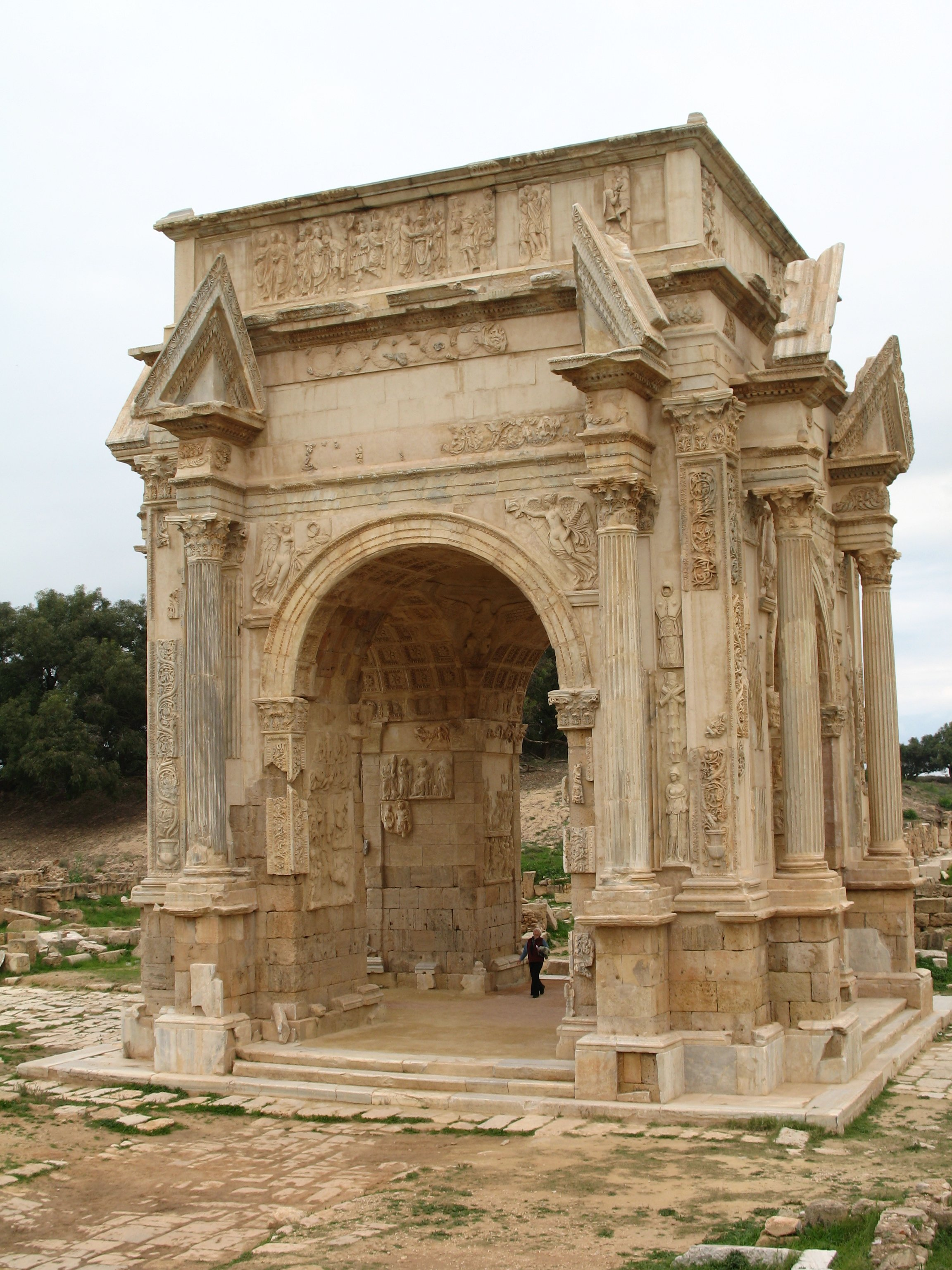 Libya, Leptis Magna